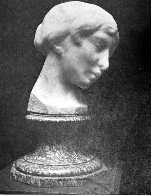 Tête de jeune fille or Tête de jeune fille au chignon, marble bust, Salon de 1906 (Paris).